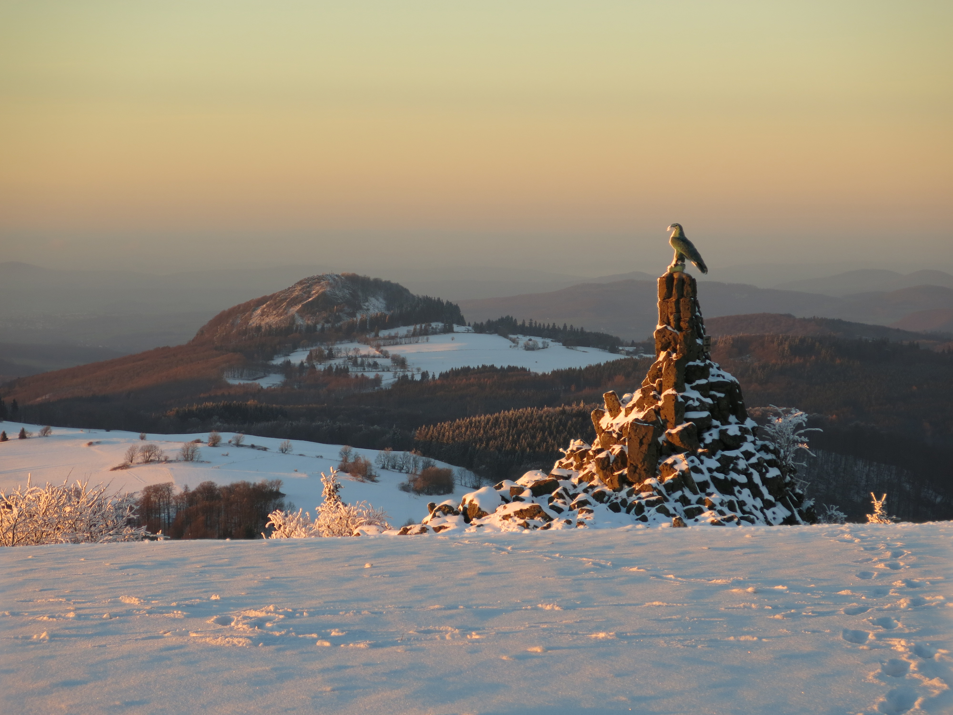 Aviator-Memorial on Wasserkuppe, on the left in the background Milseburg.